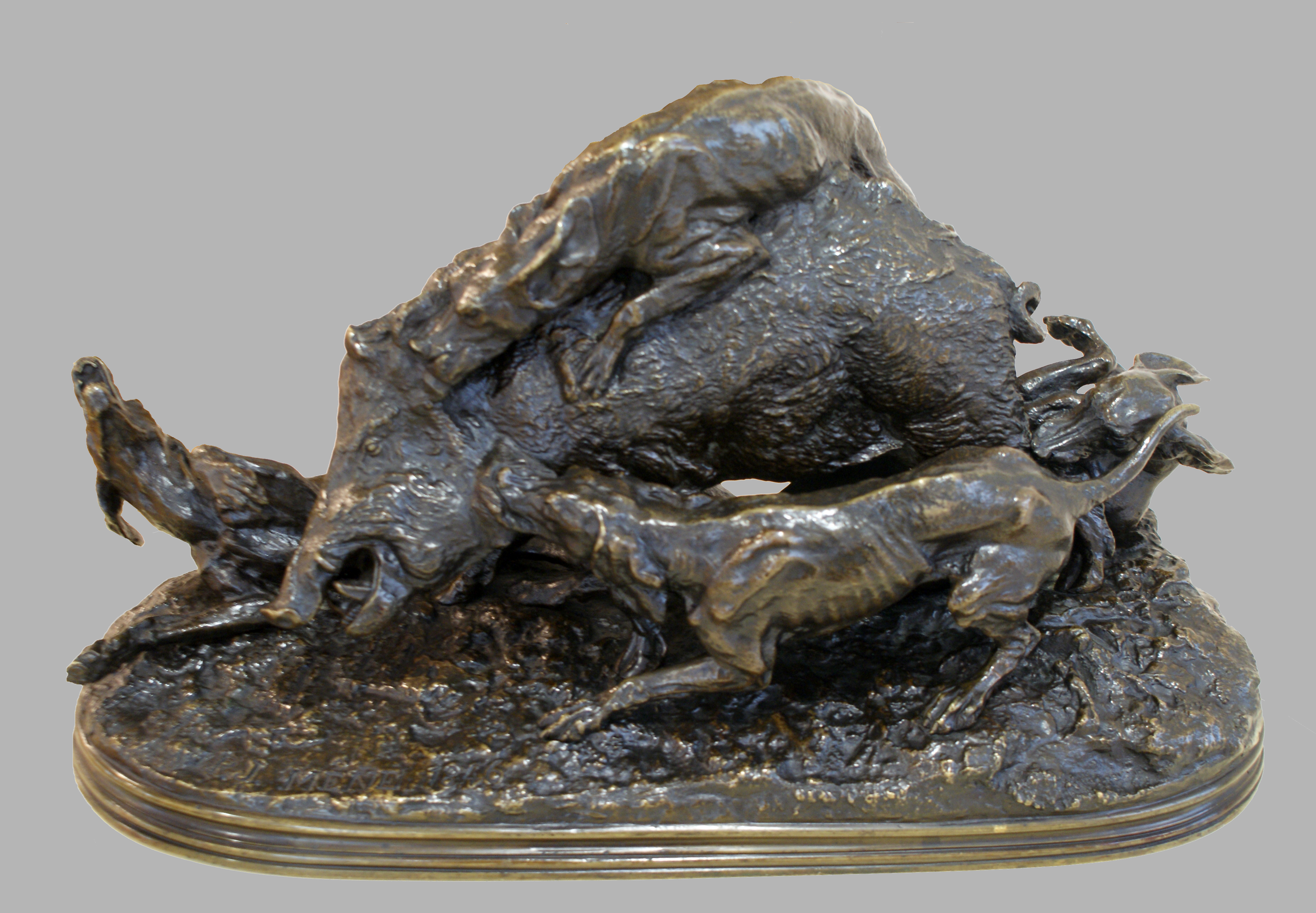 Pierre Jules Mène. Dogs attacking a wild boar